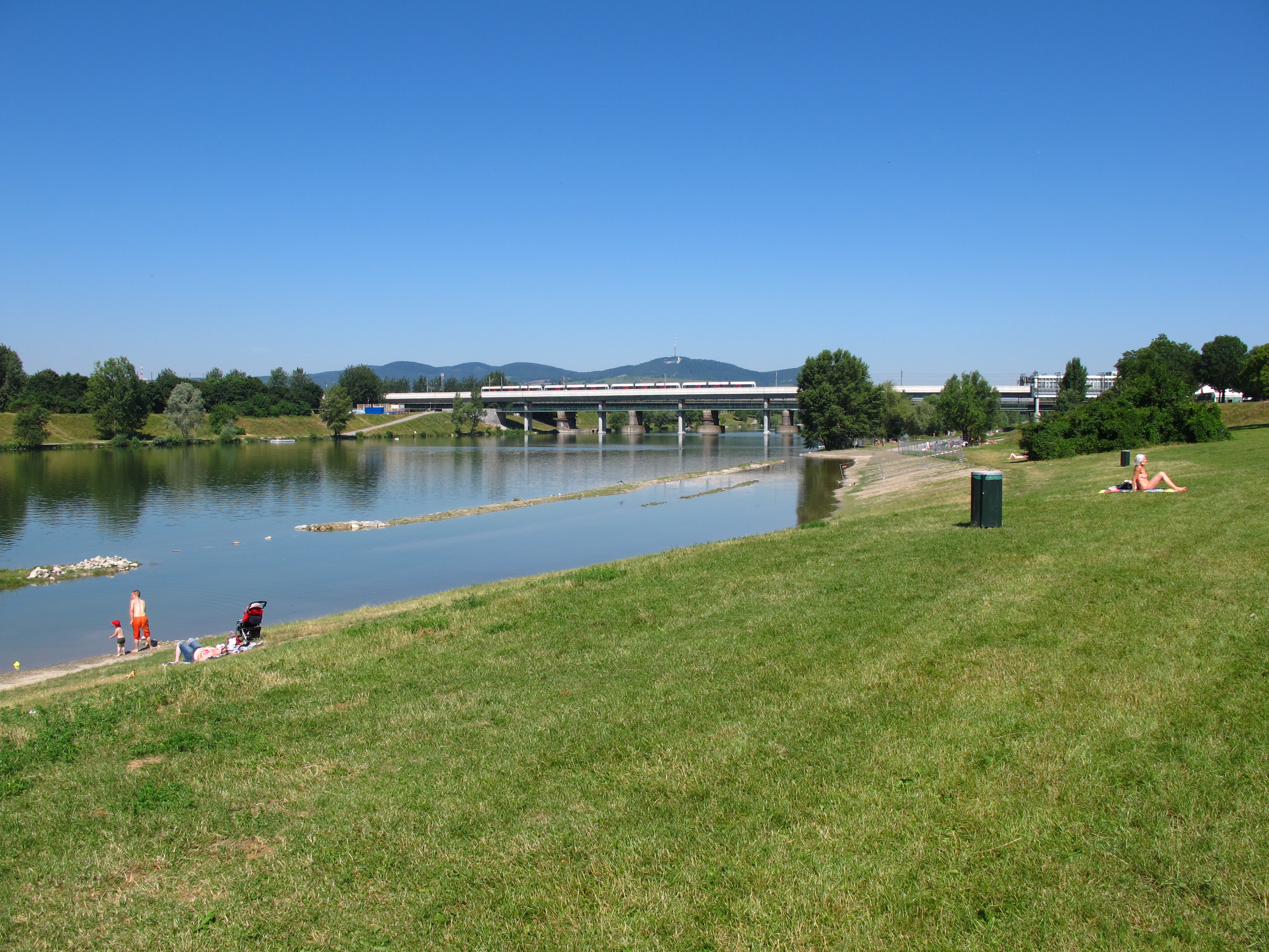 2010-scale family beach between Brigittenauerbrücke and Nordbahnbrücke, a railway bridge in Vienna Brigittenau / Austria / EU. View of 21 District to the Danube Island.